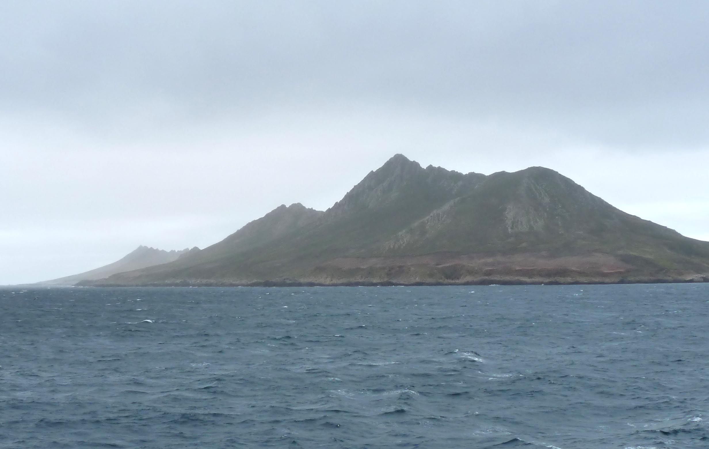 Grand Jason 02